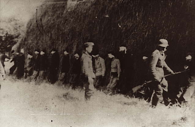 Sixteen blindfolded partisan youth await execution by German forces in Smederevska Palanka, Serbia